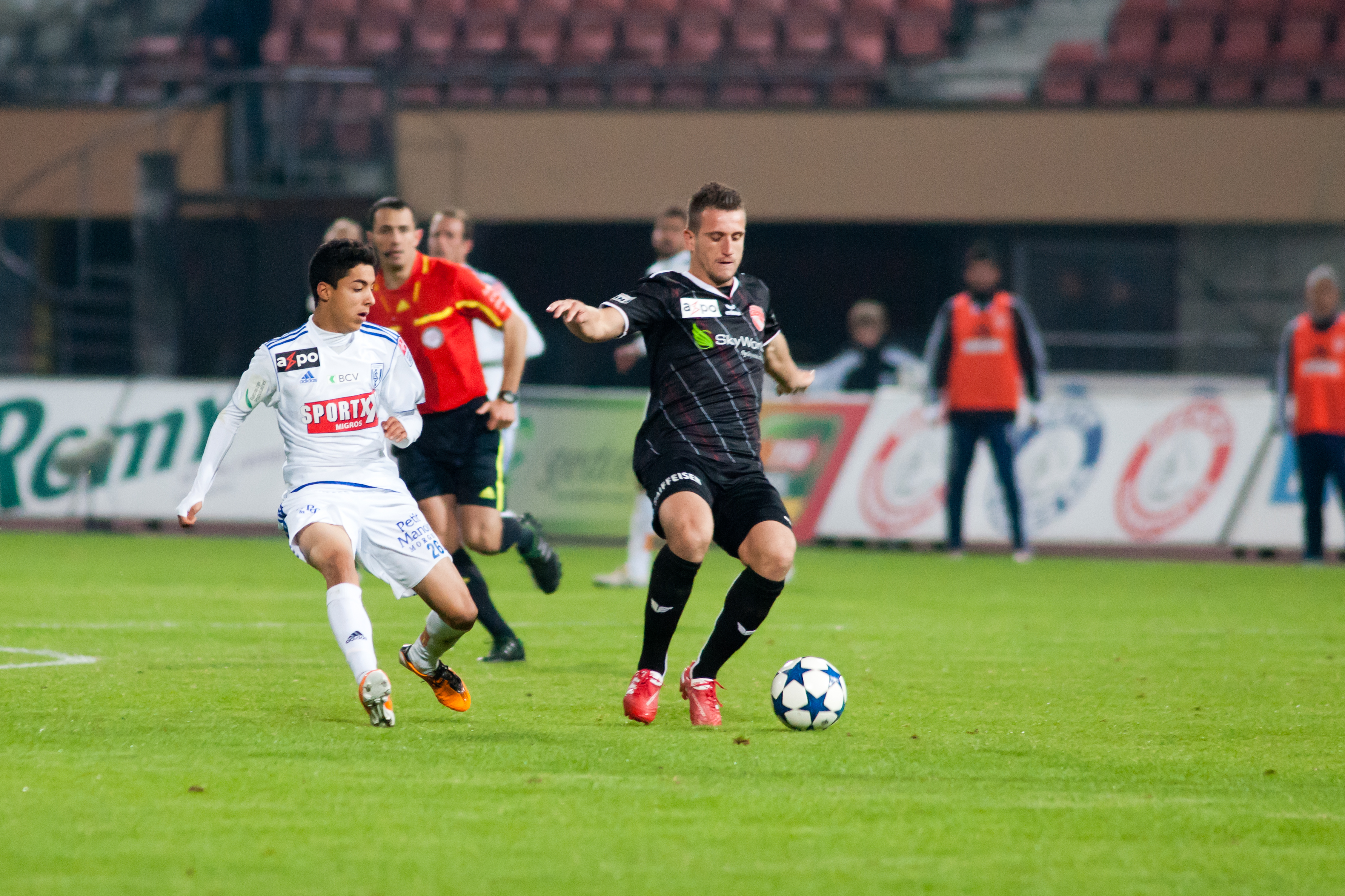 The making of this document was supported by Wikimedia CH. (Submit your project!) For all the files concerned, please see the category Supported by Wikimedia CH. Lausanne Sport vs. FC Thun - 22.10.2011